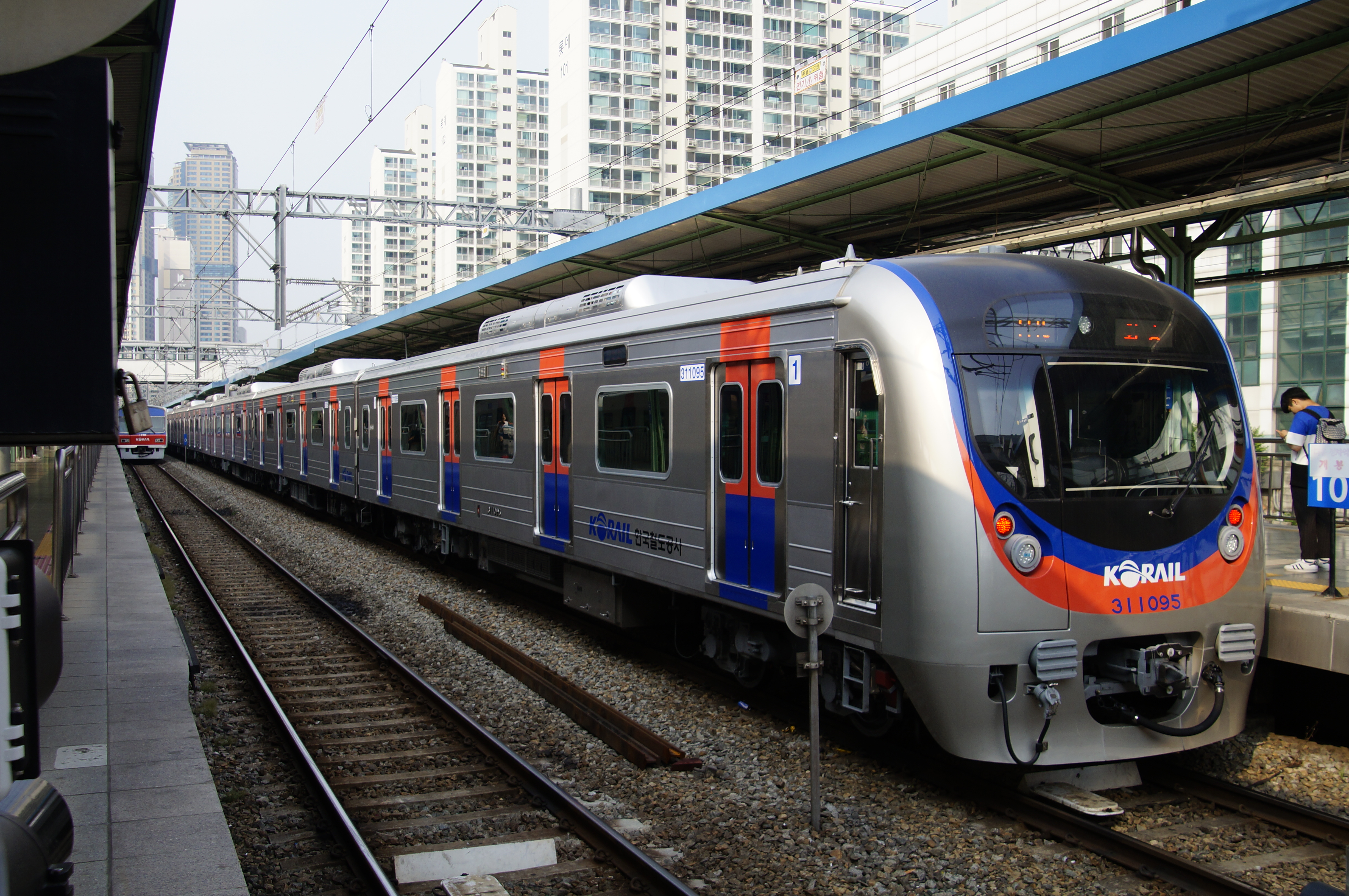 Korail Line 1 Gyeongin express train of Hyundai Rotem Korail 311000-series cars (trainset 311x95) at Guro.